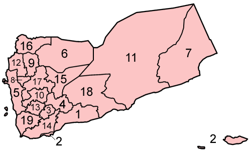 Map of the governorates of Yemen in alphabetical order in English. Made by User:Golbez.